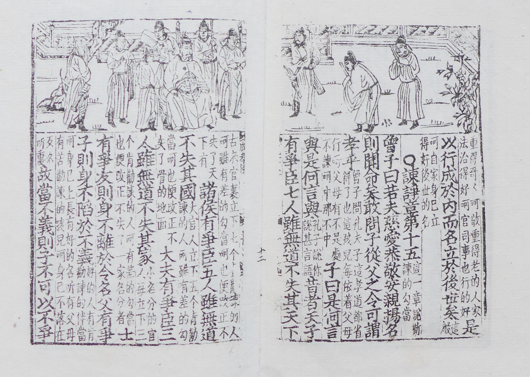 Annoted and illustrated The Classic of Filial Piety: Printed book in Yuan dynasty annoted by Kuan(1286-1324)